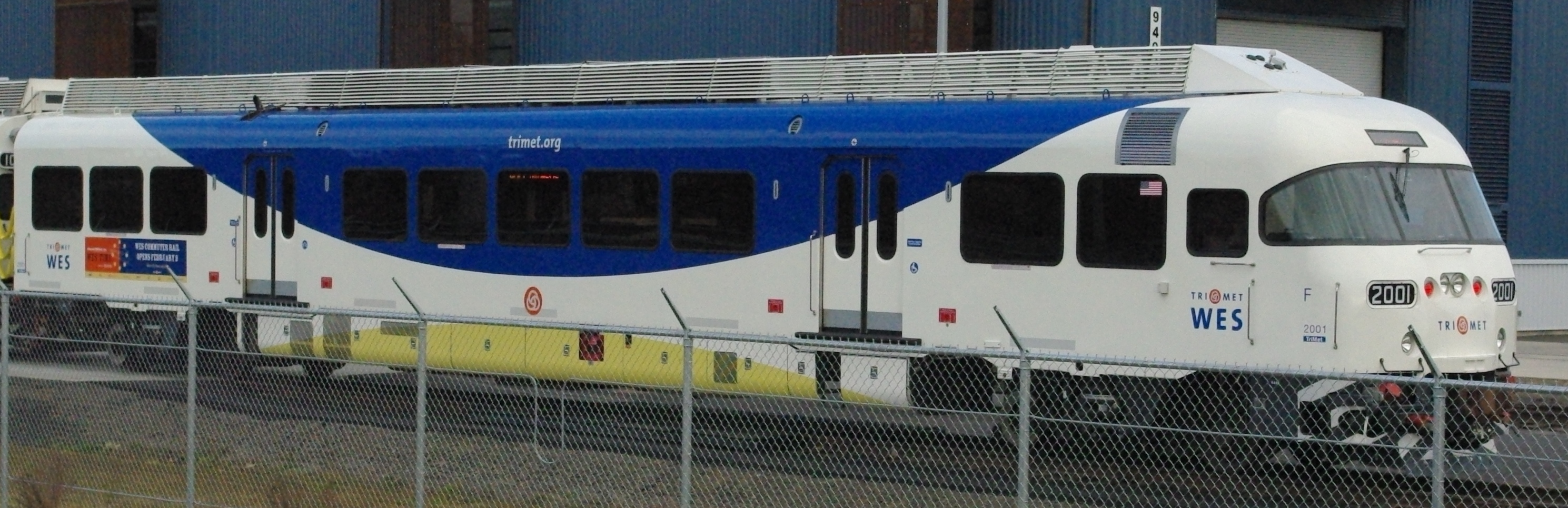 Westside Express Service train at Wilsonville maint. facility.